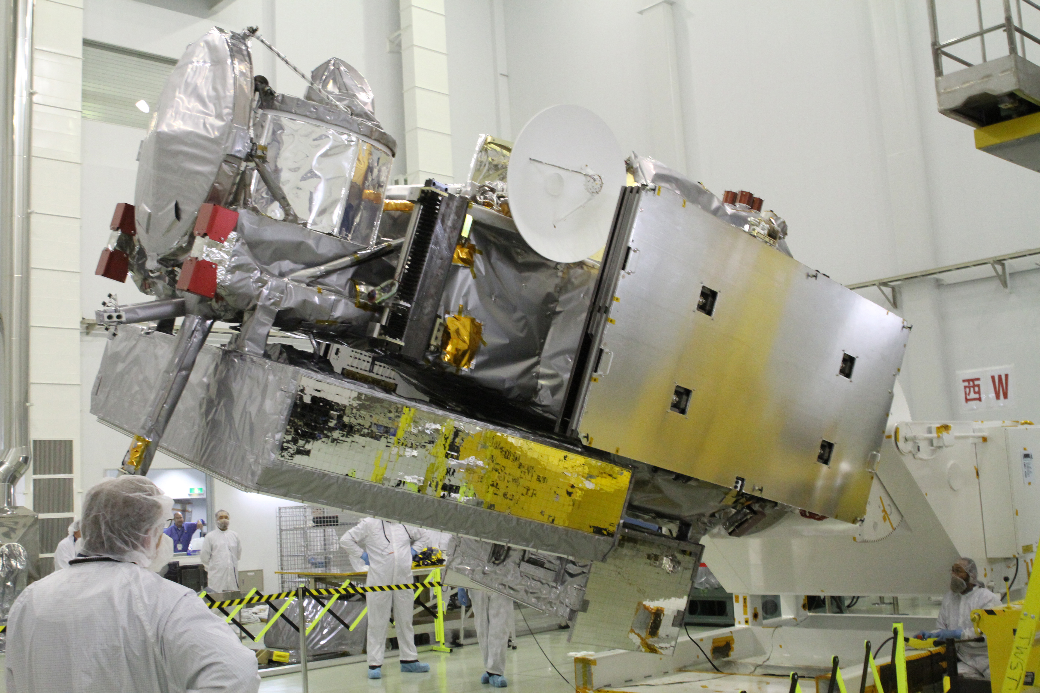 Following arrival in a cleanroom at the Tanegashima Space Center in Japan, the GPM core observatory was attached to a custom-designed satellite mount which allowed the NASA team on-site to perform preliminary inspections